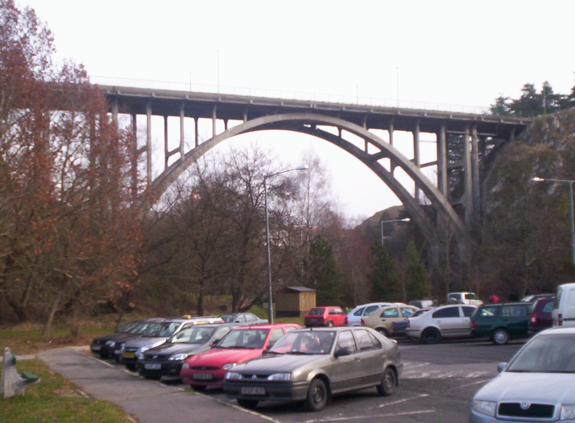 Description: The big arch of the Viaduct of Veszprém